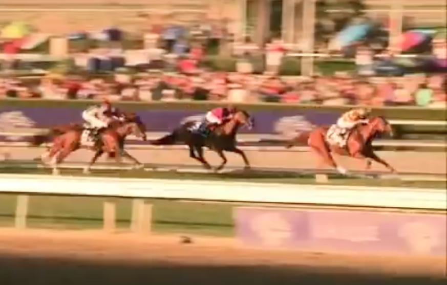 Wise Dan winning the 2012 Breeders' Cup Mile at Santa Anita Park